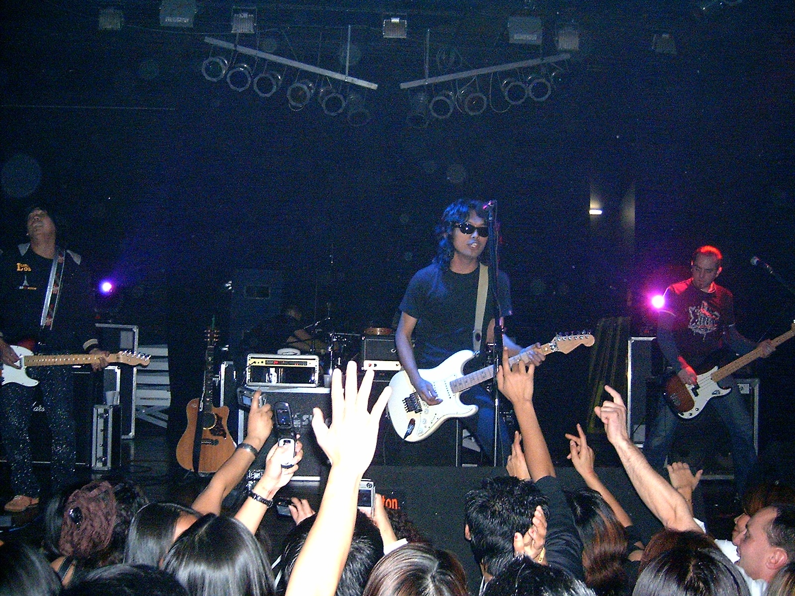 LOSO concert at 2006-02-10 in Mannheim/Germany (Festhalle Baumhain im Luisenpark)